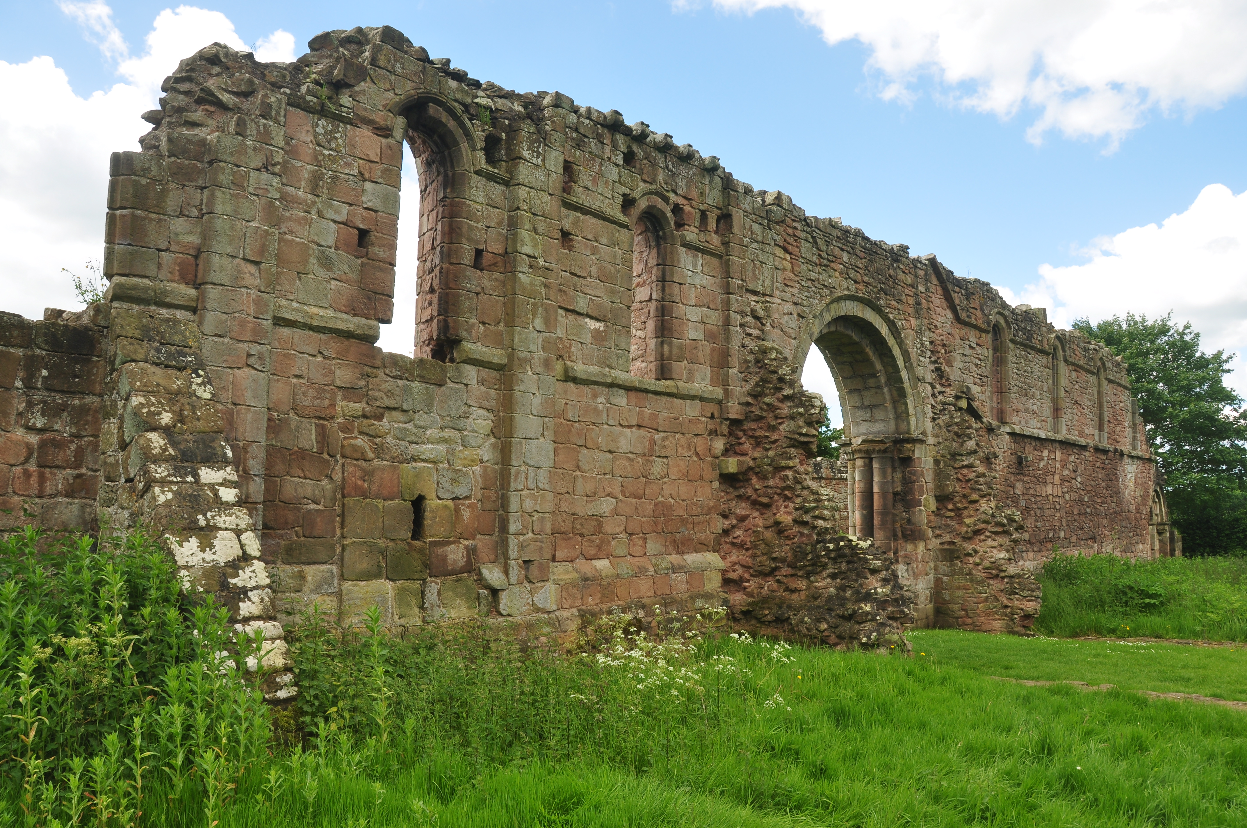 White Ladies Priory